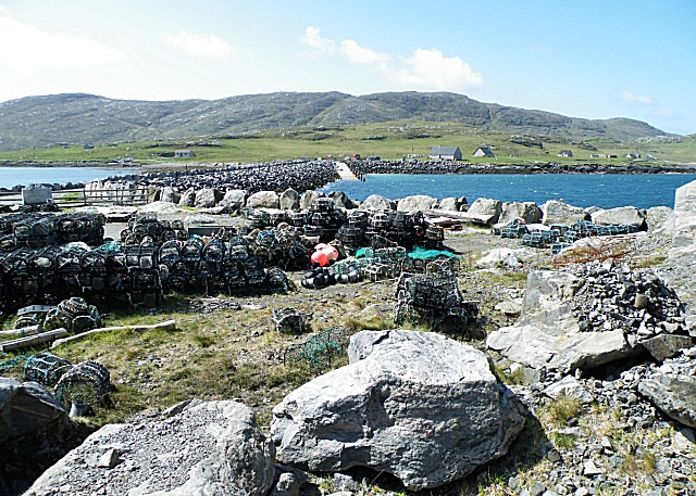 Causeway to Bhatarsaigh The causeway, completed in 1991, spans the 250 metres separating the island of Bhatarsaigh (Vatersay) from its larger neighbour Barra. Its purpose was to stem the depopulation of Bhatarsaigh by providing easier access to services and amenities, and in this is has succeeded. Before its construction islanders' cattle had to swim the tidal strait to Barra before they could be taken to market, and the loss in 1985 of the island's prize bull gave further impetus to demands for the provision of a fixed link, which was finally approved by Act of Parliament in 1987. The boulders in the foreground mark the limit of the large quarry from which the stone for the causeway was taken. The space between the quarry and the causeway is being made use of for storing creels. There are a slipway and a parking area at the far end, on Bhatarsaigh.